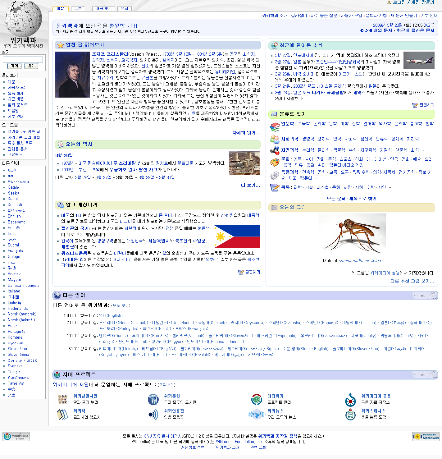 Main page of Korean Wikipedia.